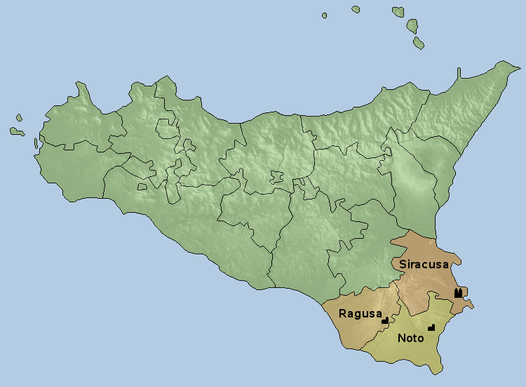 Map of the ecclesiastical province of Syracuse (^^: Cathedral of a metropolitan diocese, –^: Cathedral of a suffragan diocese, ^–: Co-cathedral)